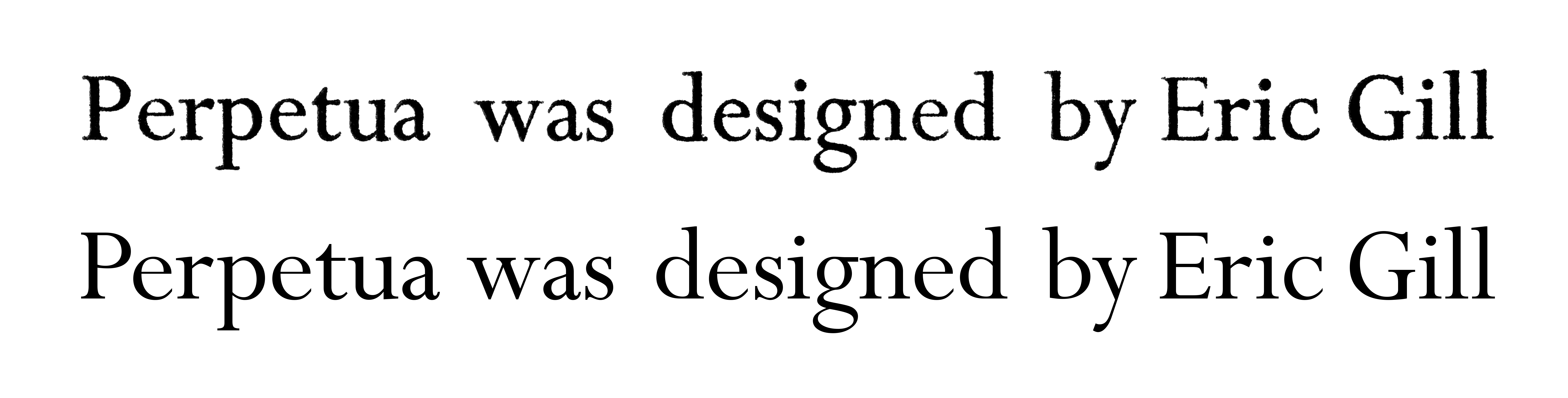 The top line is a printed sample of the Perpetua typeface, taken from On Type Designs Past and Present by Stanley Morison (London: Ernest Benn, 1962), p. 79. The bottom line is a digital sample of Perpetua generated using GIMP software.